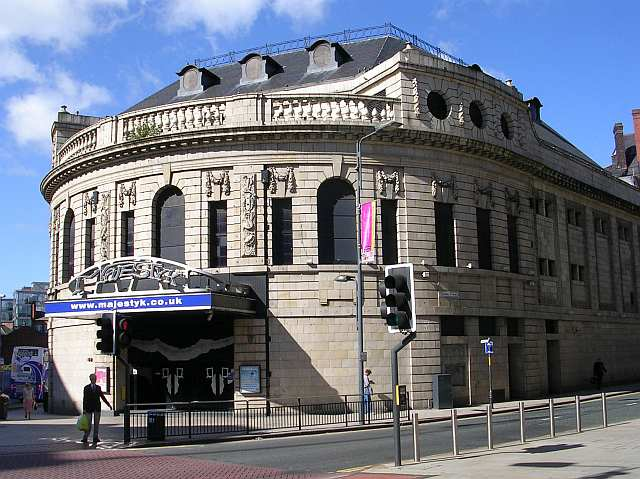 The Majestic Cinema & Dance Hall - City Square This is now a night club. (actually the nightclub closed in 2006 Mtaylor848 (talk) 13:14, 21 May 2013 (UTC))